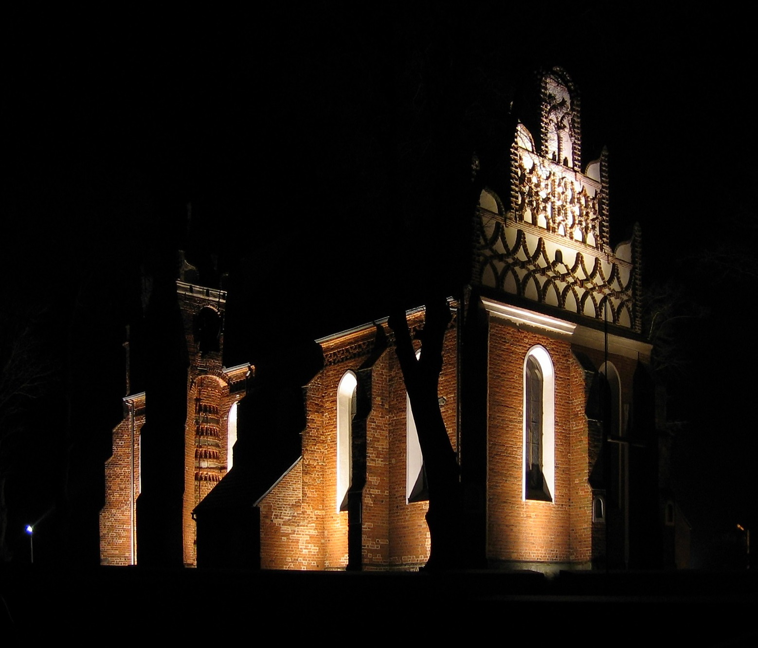 The Birth of St. Mary Roman Catholic Church in Kamionna, Poland